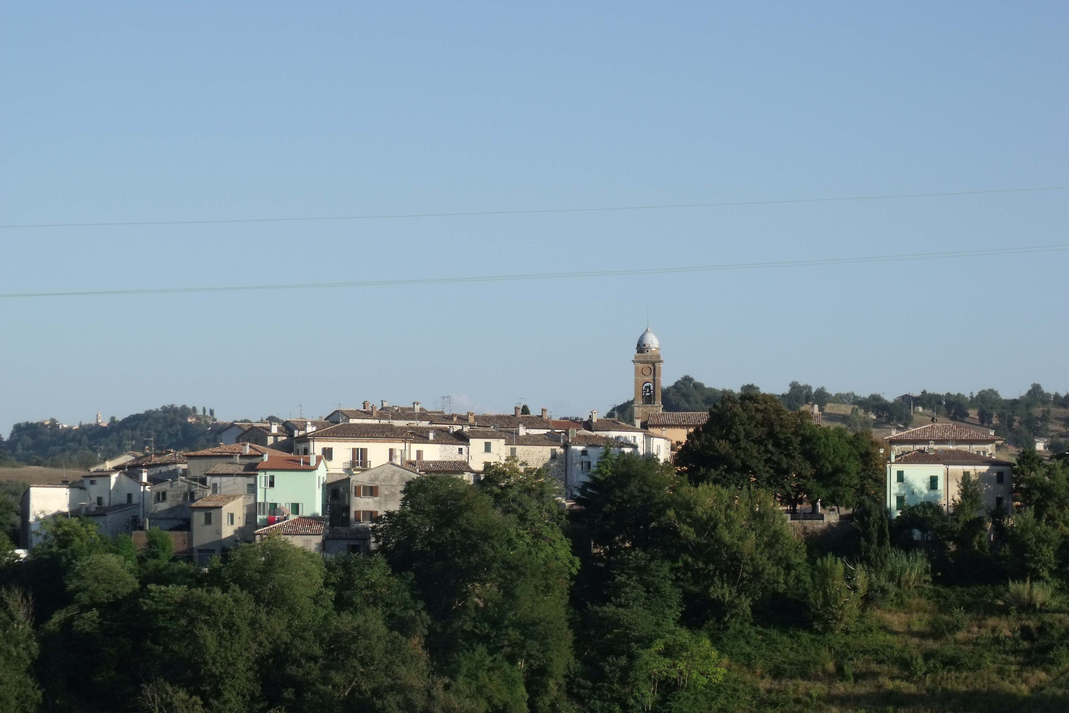 Panorama of Montegiardino, Municipality of San Marino